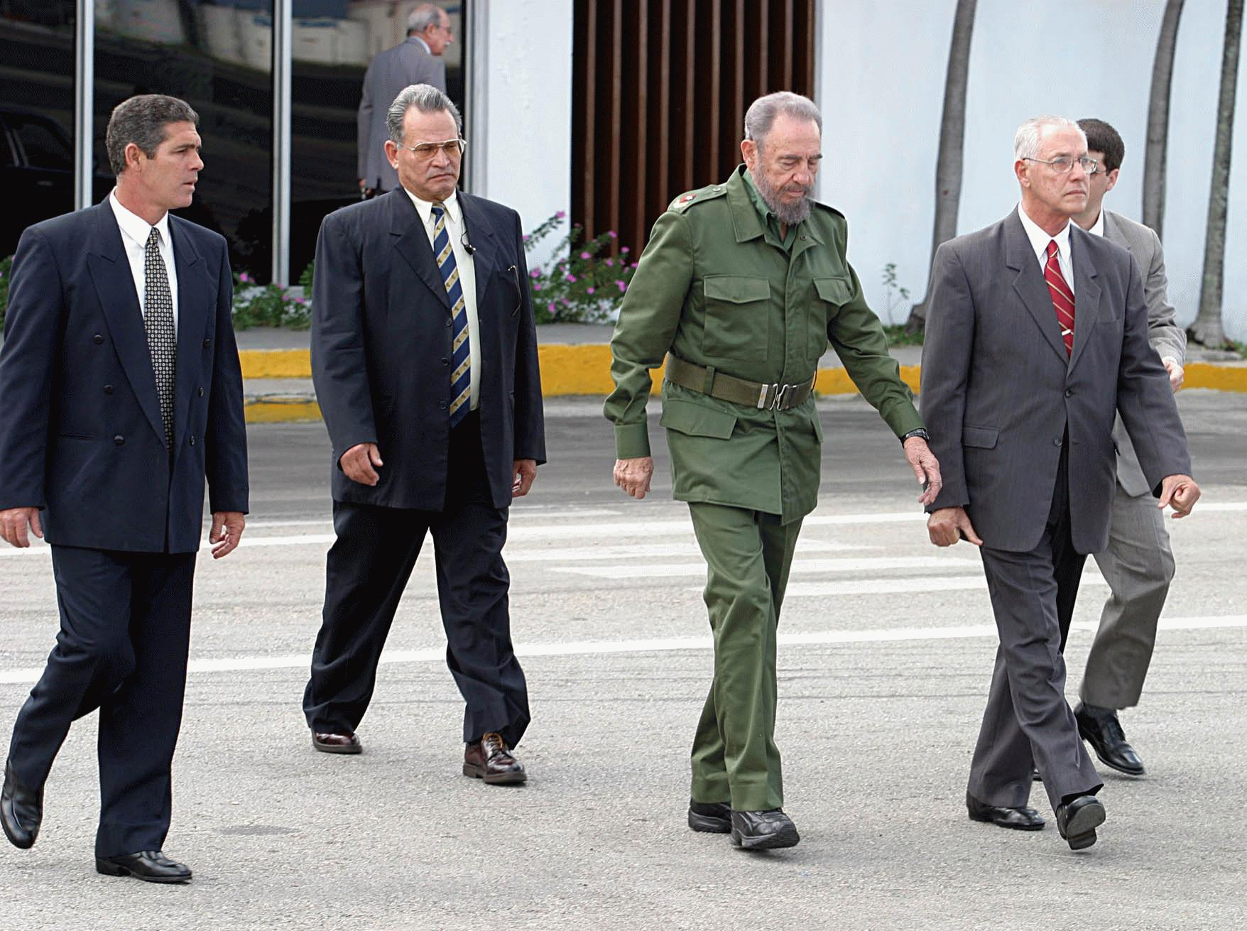 Fidel Castro — in front of Monument of Martyrs at Havana, Cuba.